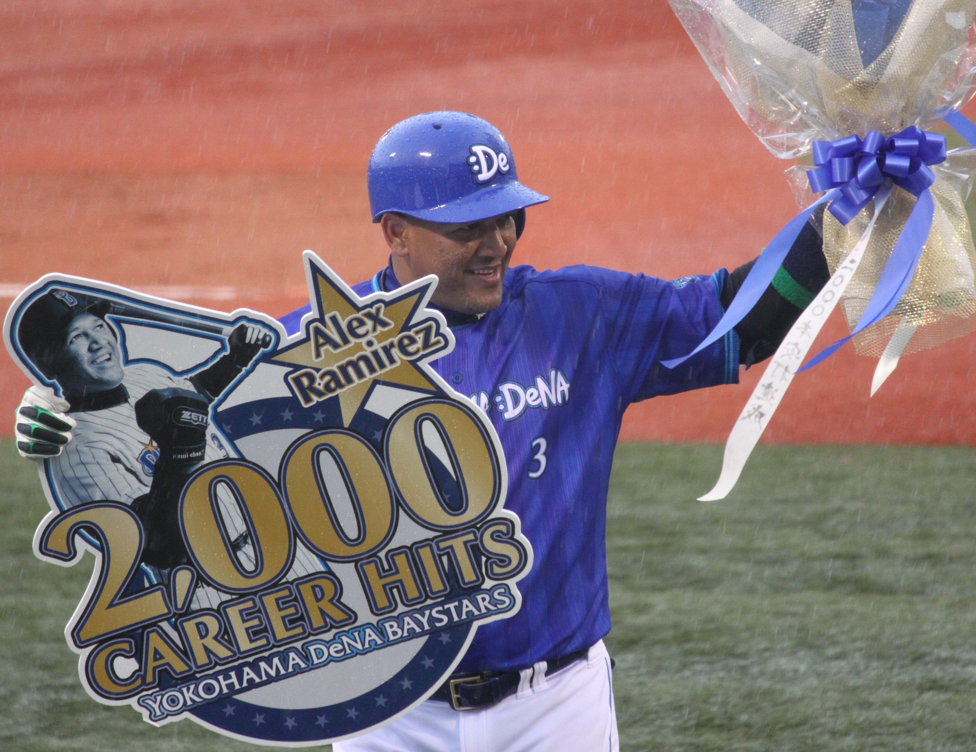 Alex Ramírez, outfielder of the Yokohama DeNA BayStars, at Meiji Jingu Stadium.